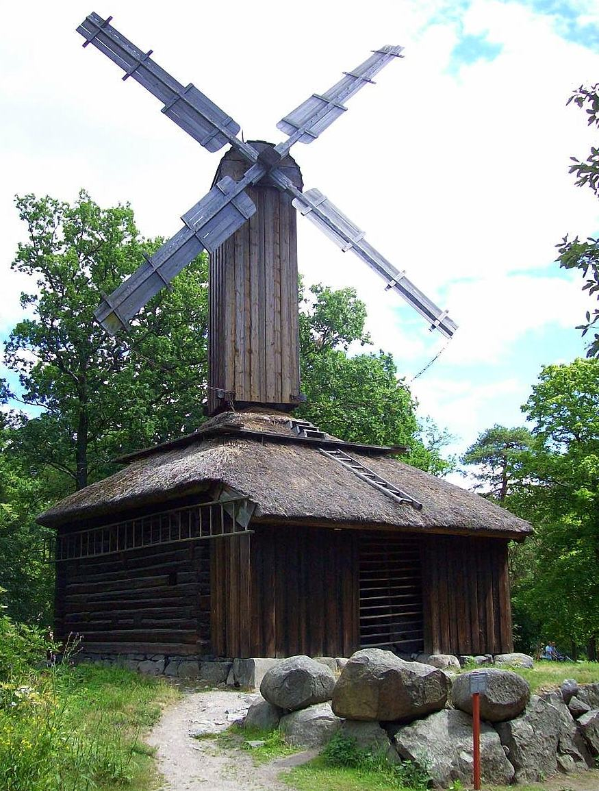 The Främmestad windmill comes from a farm from Västergötland, build in 1750 and alterd in 1828. Located in Skansen, Stockholm, Sweden.